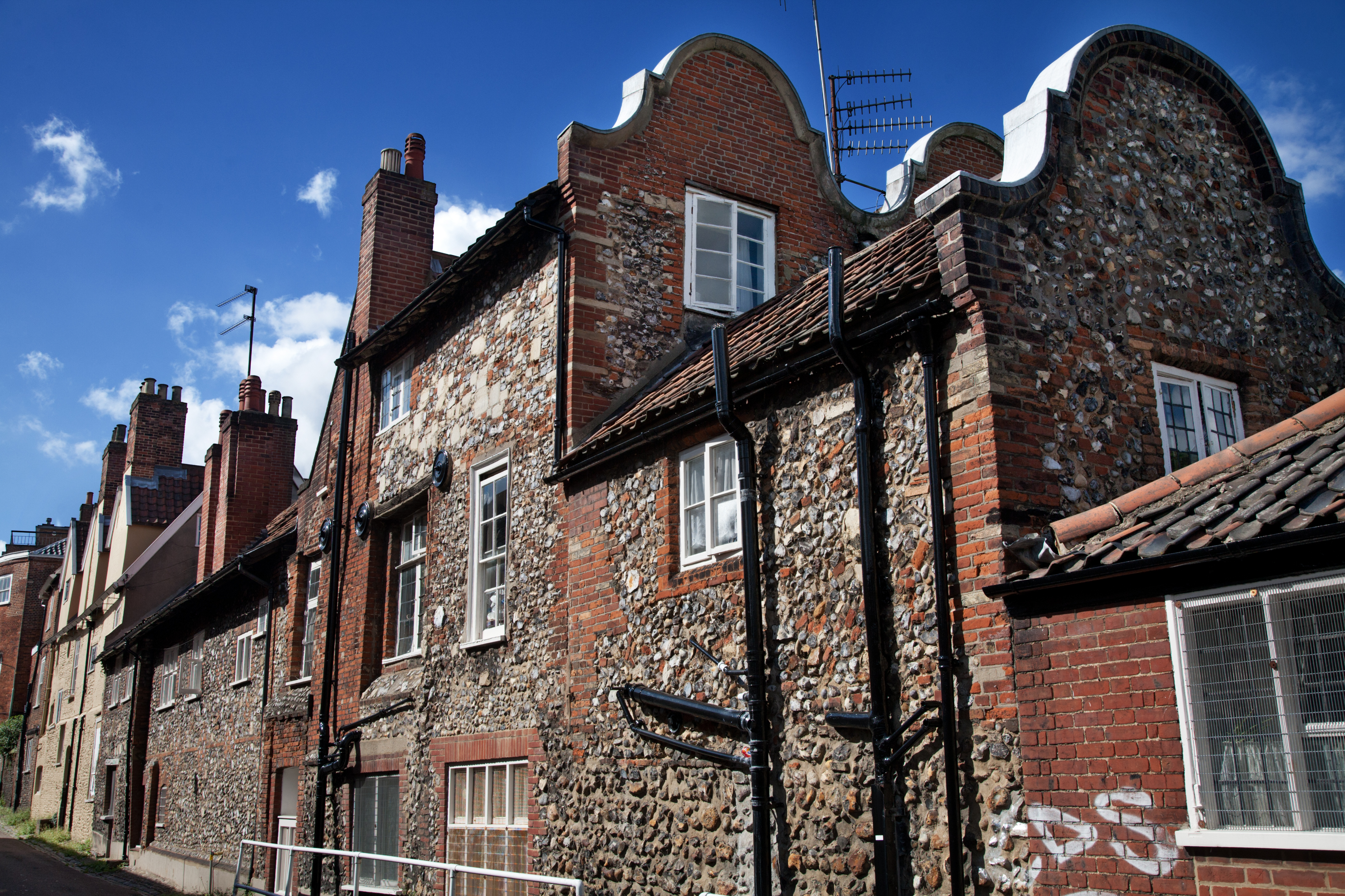 Housing details, Norwich, UK